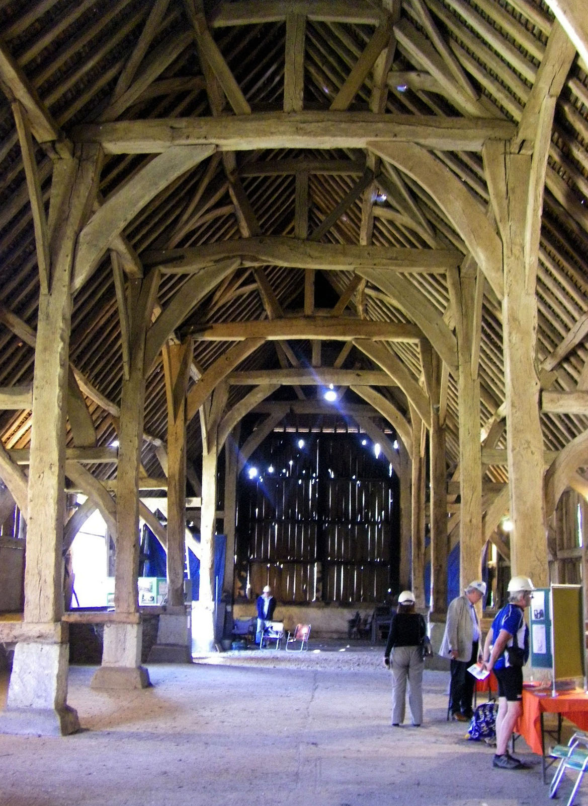 Interior of Harmondsworth Great Barn, Middlesex